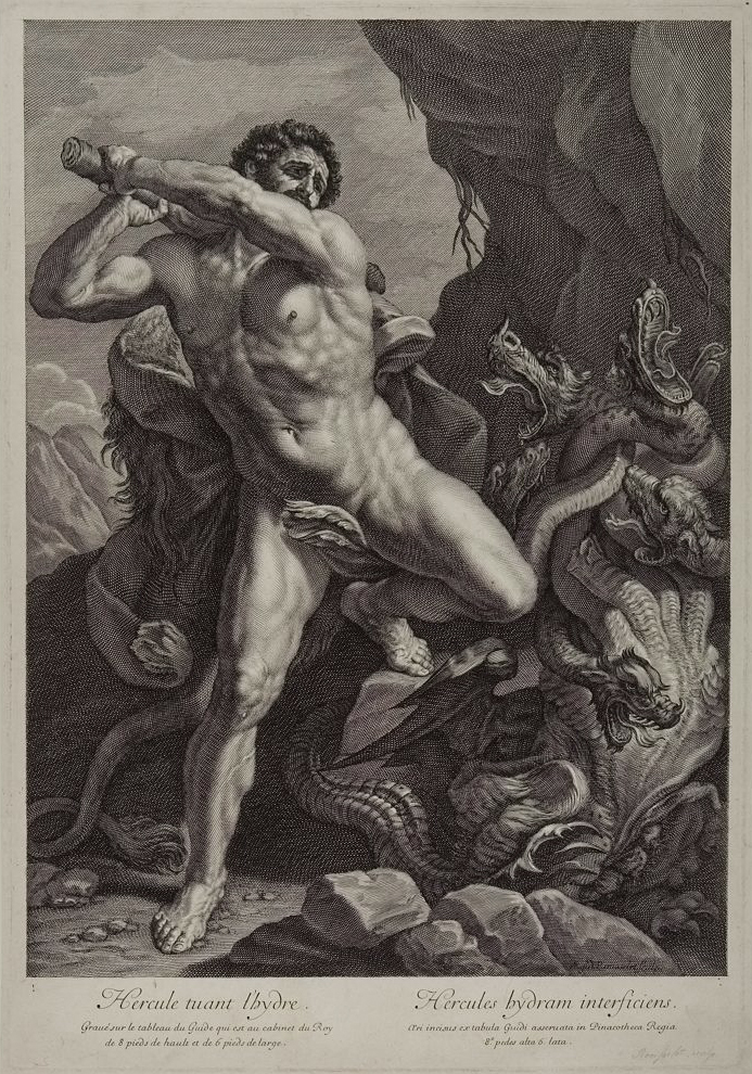 Engraving about the second labour of Heracles: slay the Lernaean Hydra